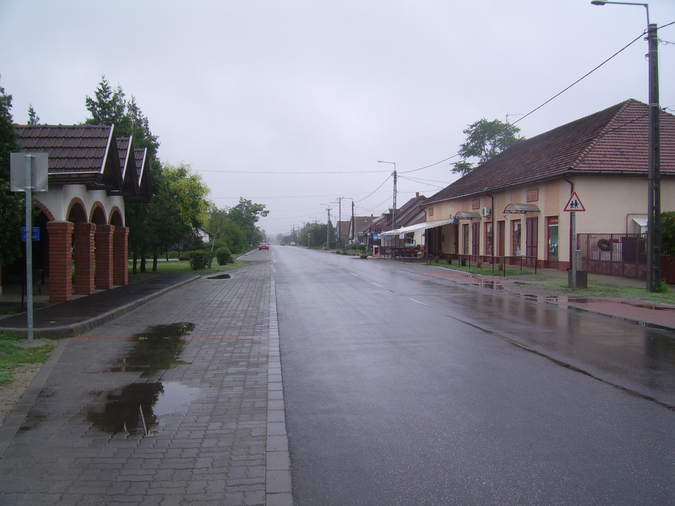 The Felszabadulás utca (Liberation street) in Ruzsa, Hungary